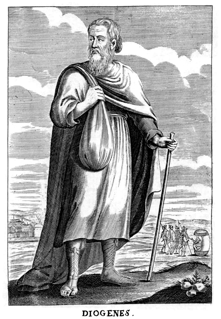 Diogenes, ancient Greek philosopher. From Thomas Stanley, (1655), The history of philosophy: containing the lives, opinions, actions and Discourses of the Philosophers of every Sect, illustrated with effigies of divers of them.